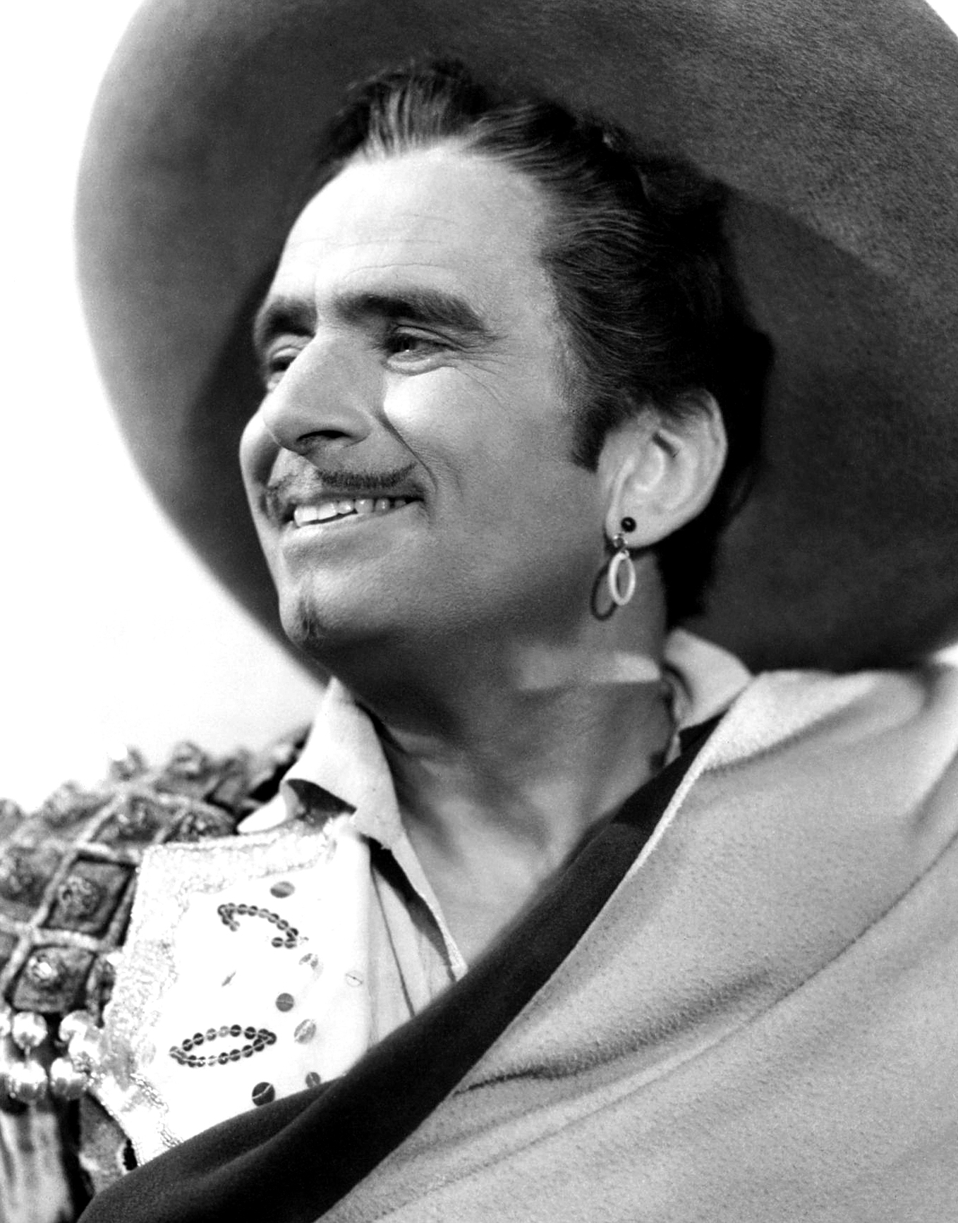 Publicity photo of Douglas Fairbanks, Sr. for film The Private Life of Don Juan